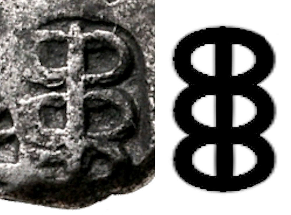 Caduceus on Mauryan punch-marked coin